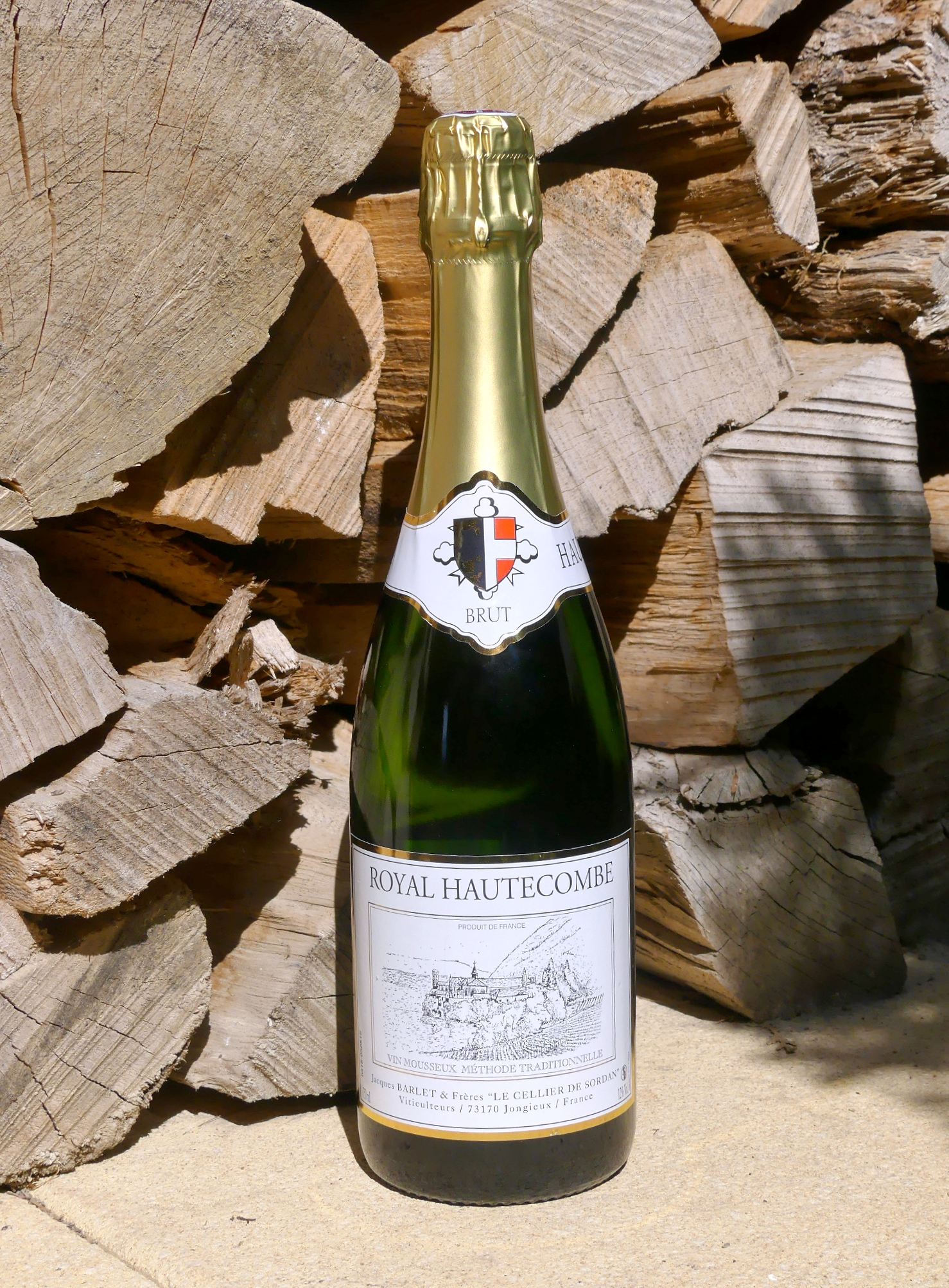 Bottle of 'Royal Hautecombe' sparkling wine, produced from the vineyards of Hautecombe abbey, in Savoie, France.